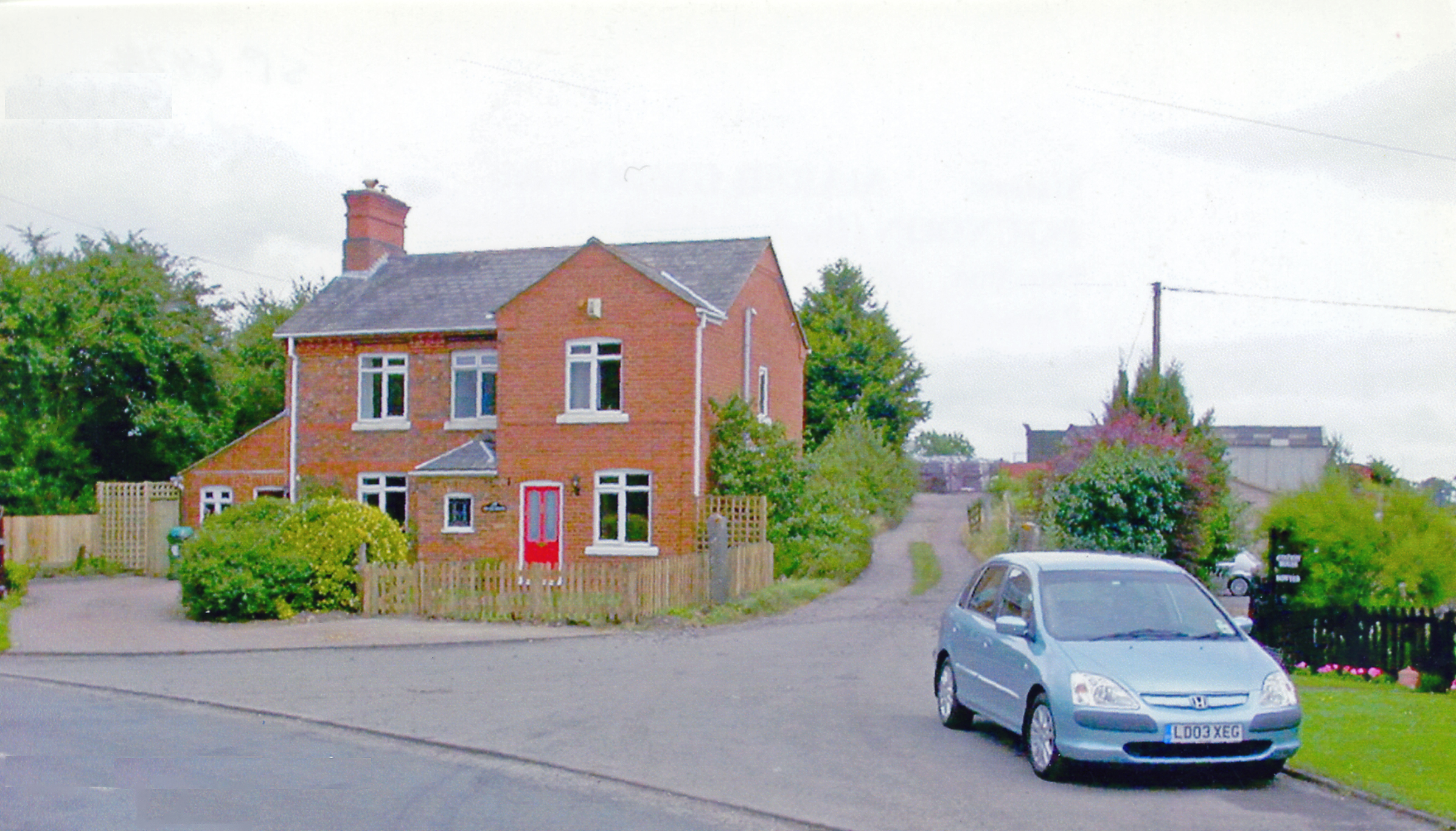 Former Marsh Gibbon & Poundon station house. View NW across a remnant of the ex-LNWR Bletchley - Claydon (to right) - Bicester - Oxford (to left) line. The line and station closed to passengers 1/1/68, but was restored to passengers Oxford - Bicester (Town) 11/5/87 and the Bicester - Claydon section has been retained for freight (mainly 'Bin-Liners'). It may well be restored soon, as part of a much-needed East-West route.